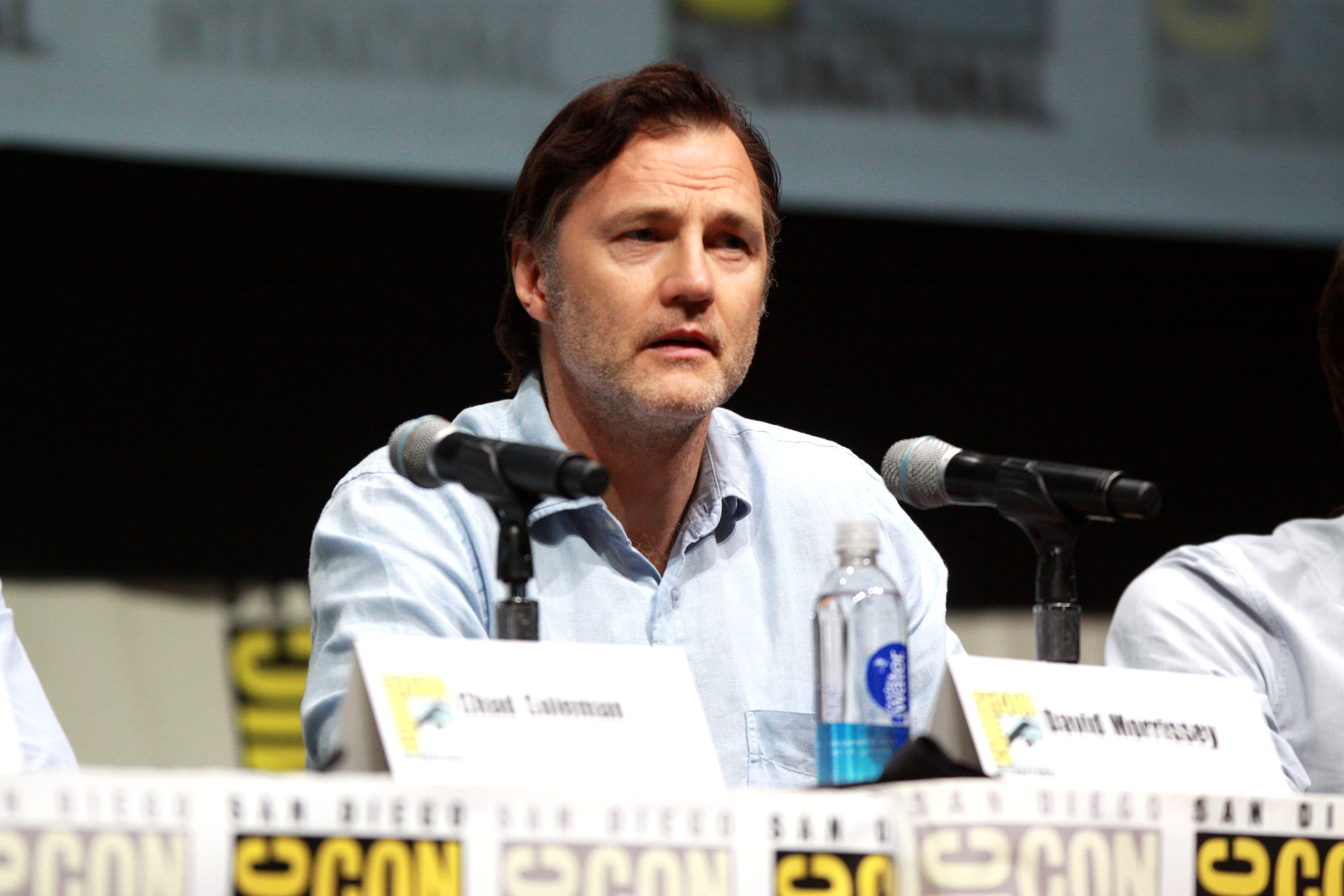 David Morrissey speaking at the 2013 San Diego Comic Con International, for "The Walking Dead", at the San Diego Convention Center in San Diego, California.